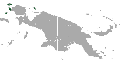 Beaufort's Naked-backed Fruit Bat (Dobsonia beauforti) range